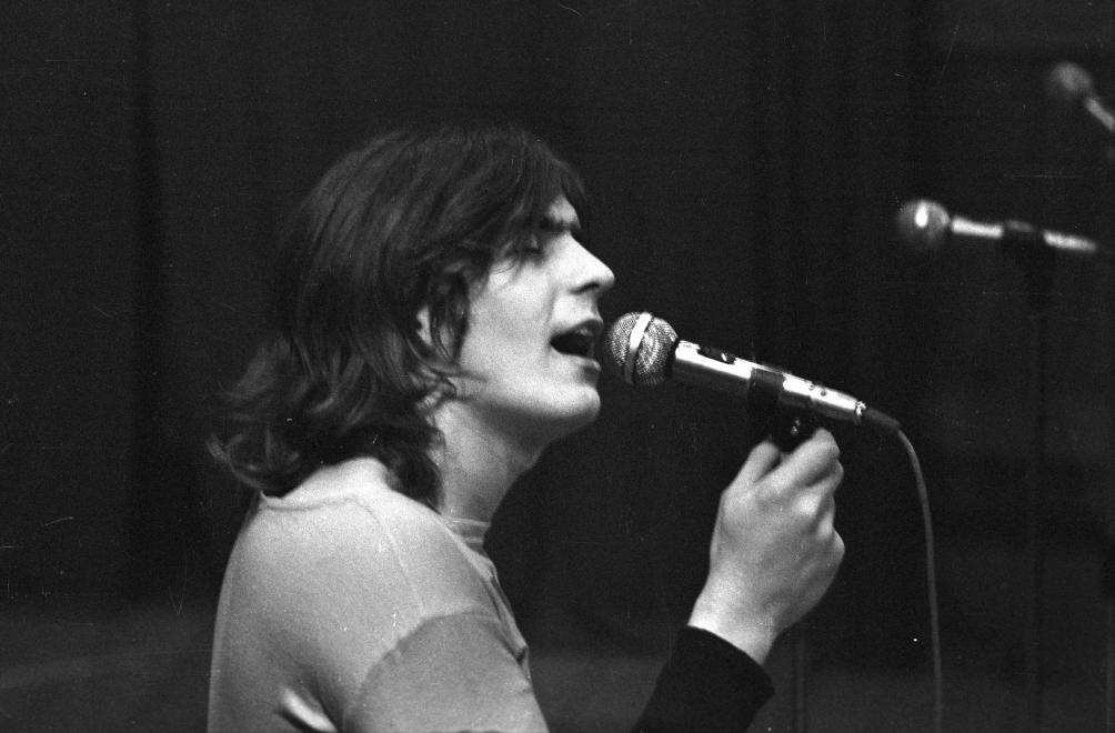 Sándor Révész a rockmusician in 1973